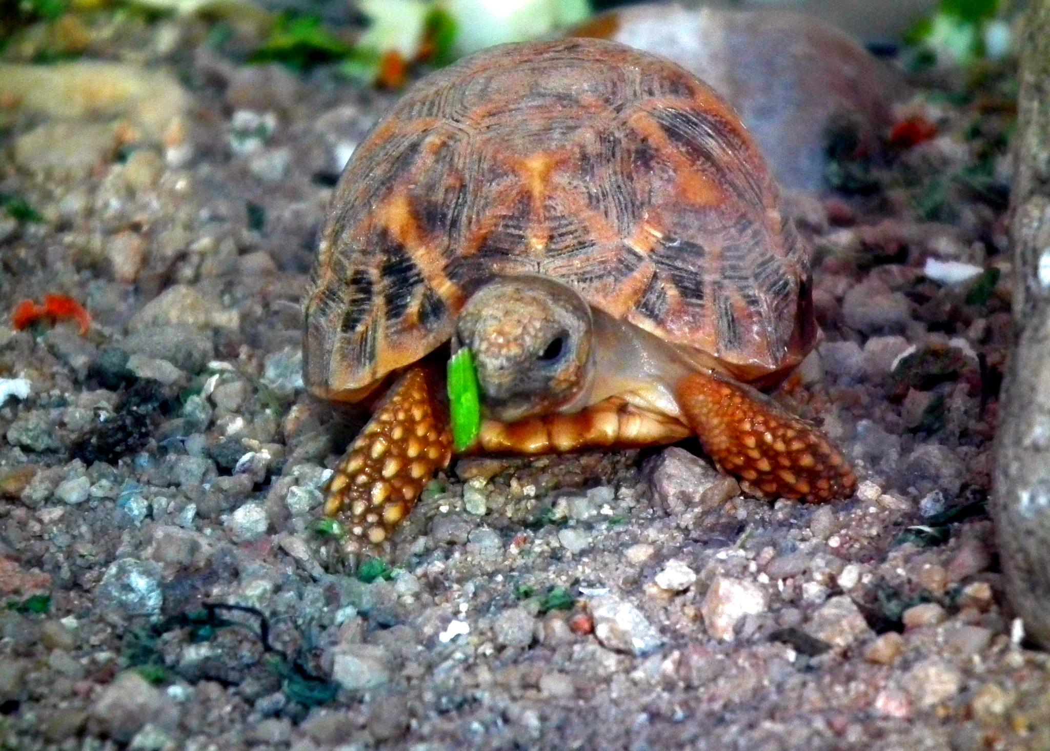 The Indian star tortoise (Geochelone elegans) is a species of tortoise found in dry areas and scrub forest in India and Sri Lanka. This species is quite popular in the exotic pet trade.